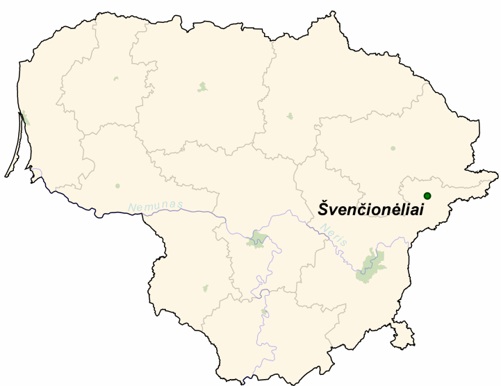 Švenčionėliai on the map of Lithuania